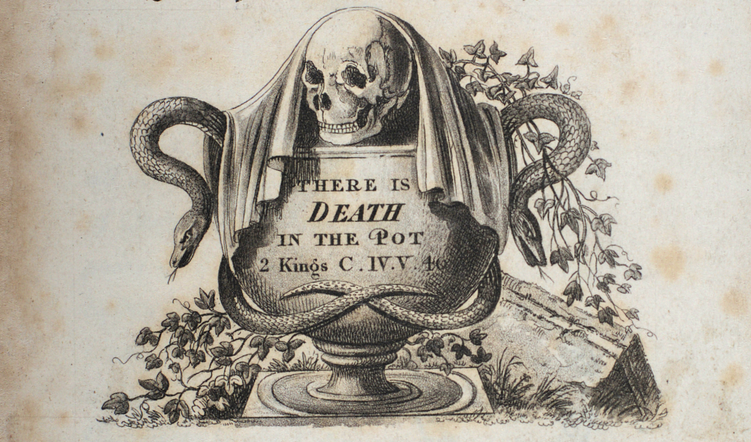 Detail from title page of Frederick Accum’s 'Treatise on adulterations of food and culinary poisons', published in 1820. To find out more visit our blog